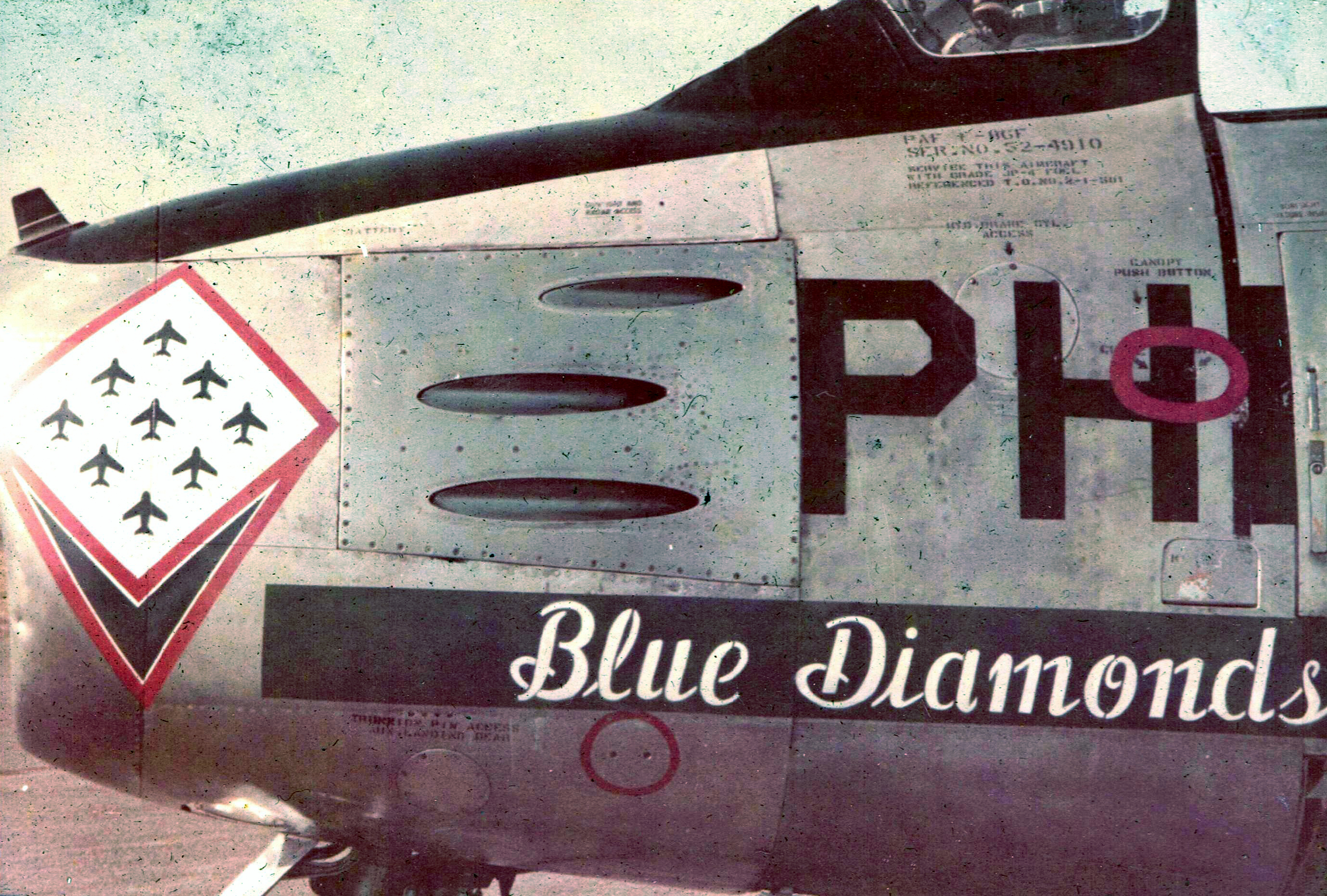 Emblem of the Philippine Air Force Aerobatic Team, the Blue Diamonds, on North American F-86 Sabre.